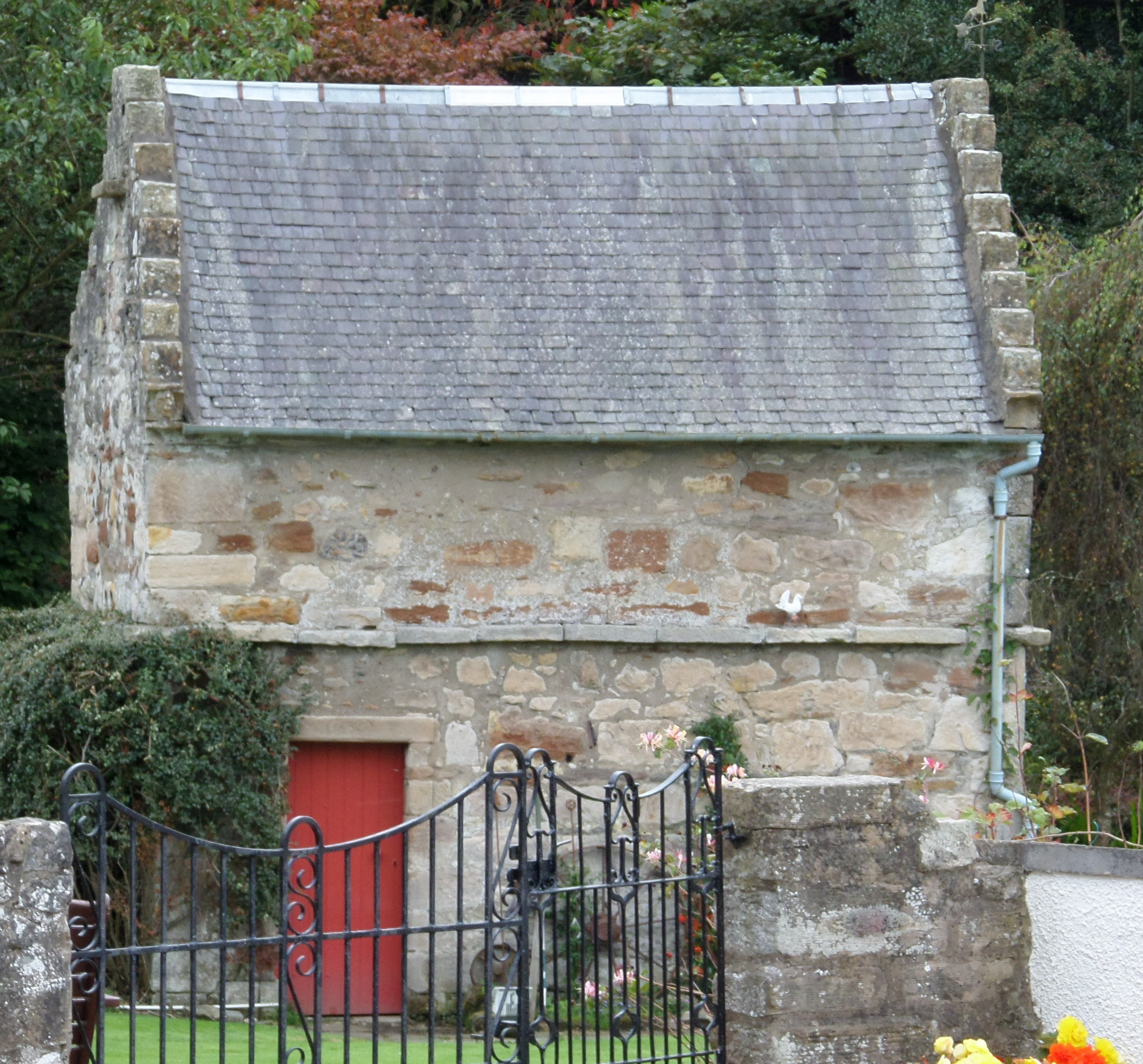 The 1636 Kirkfauld dovecote at Saint Maurs-Glencairn Church, Kilmaurs, East Ayrshire, Scotland.